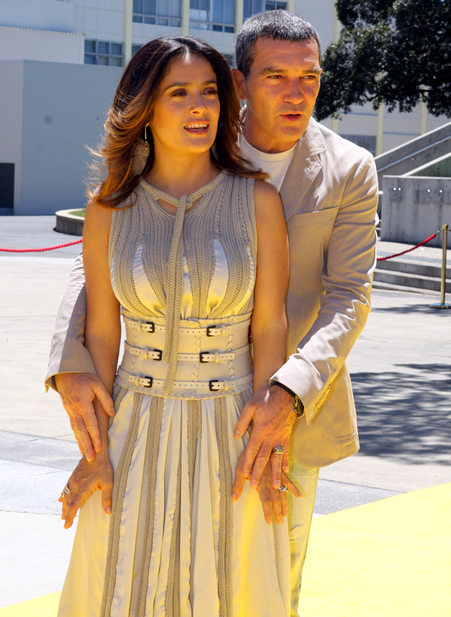 Antonio Banderas & Salma Hayek at the Puss in Boots 3D Premiere 2011.